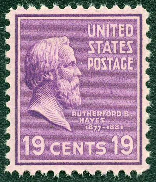 US Postage stamp: Rutherford B. Hayes, Issue of 1938, 19c